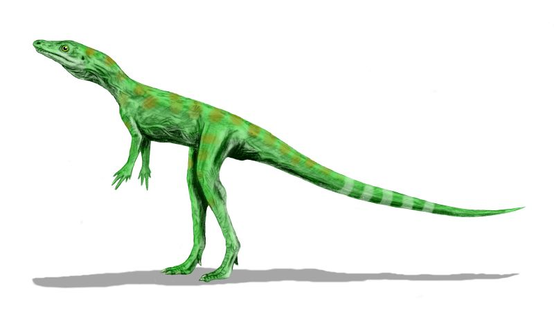 Hypothetical reconstruction of Dromomeron romeri, a dinosauriform from the Late Triassic of New Mexico, pencil drawing